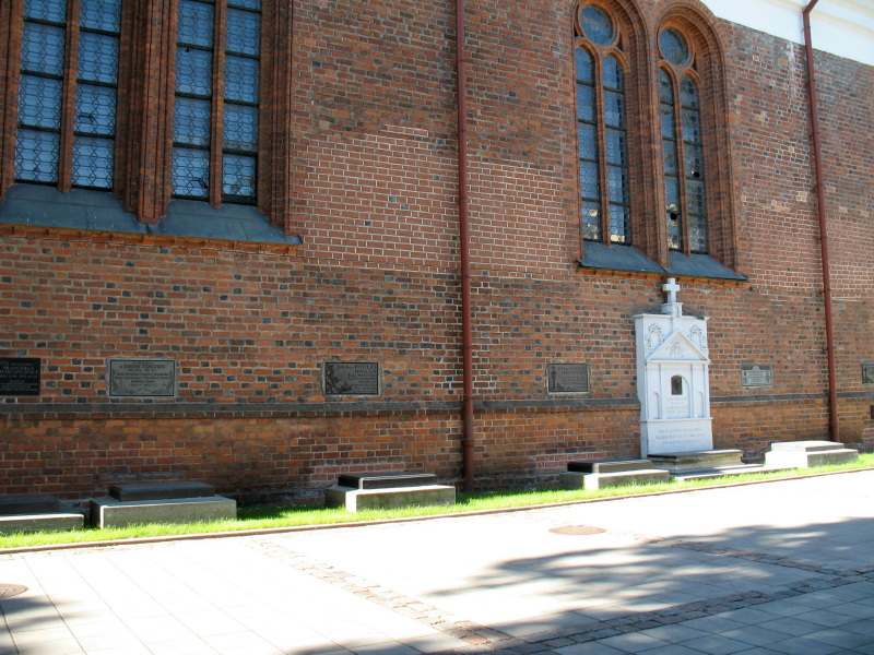 Kaunas Cathedral Basilica, Lithuania.